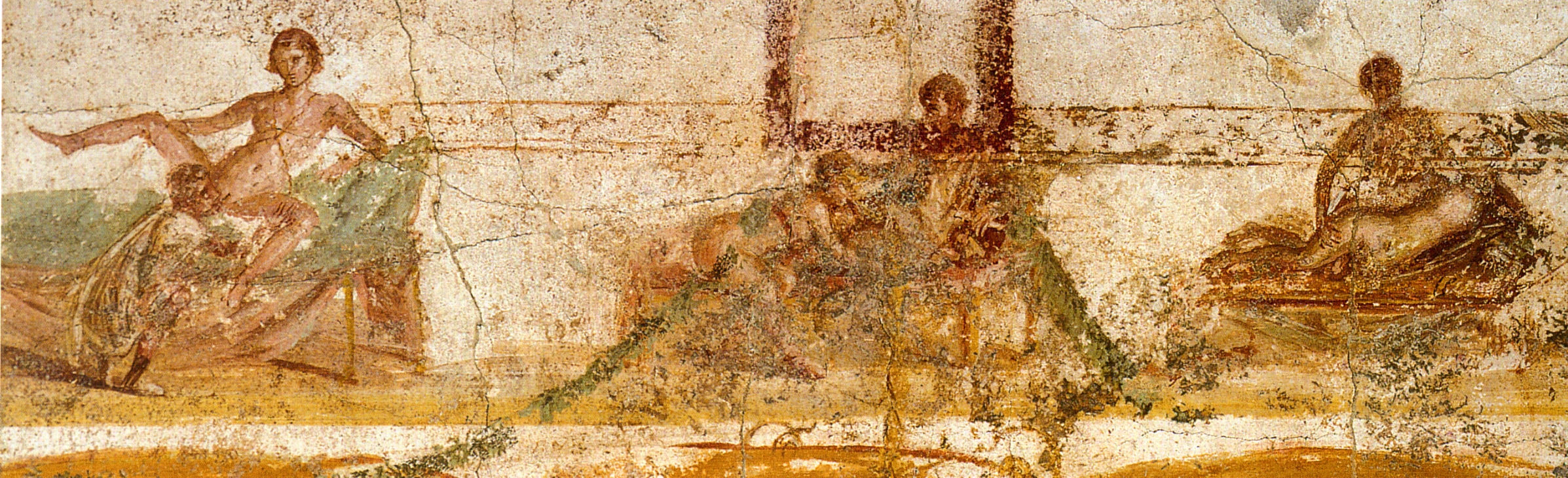 Part of the famous mural showing variants of sexual intercourse. Roman fresco from the Terme Suburbane in Pompeii.